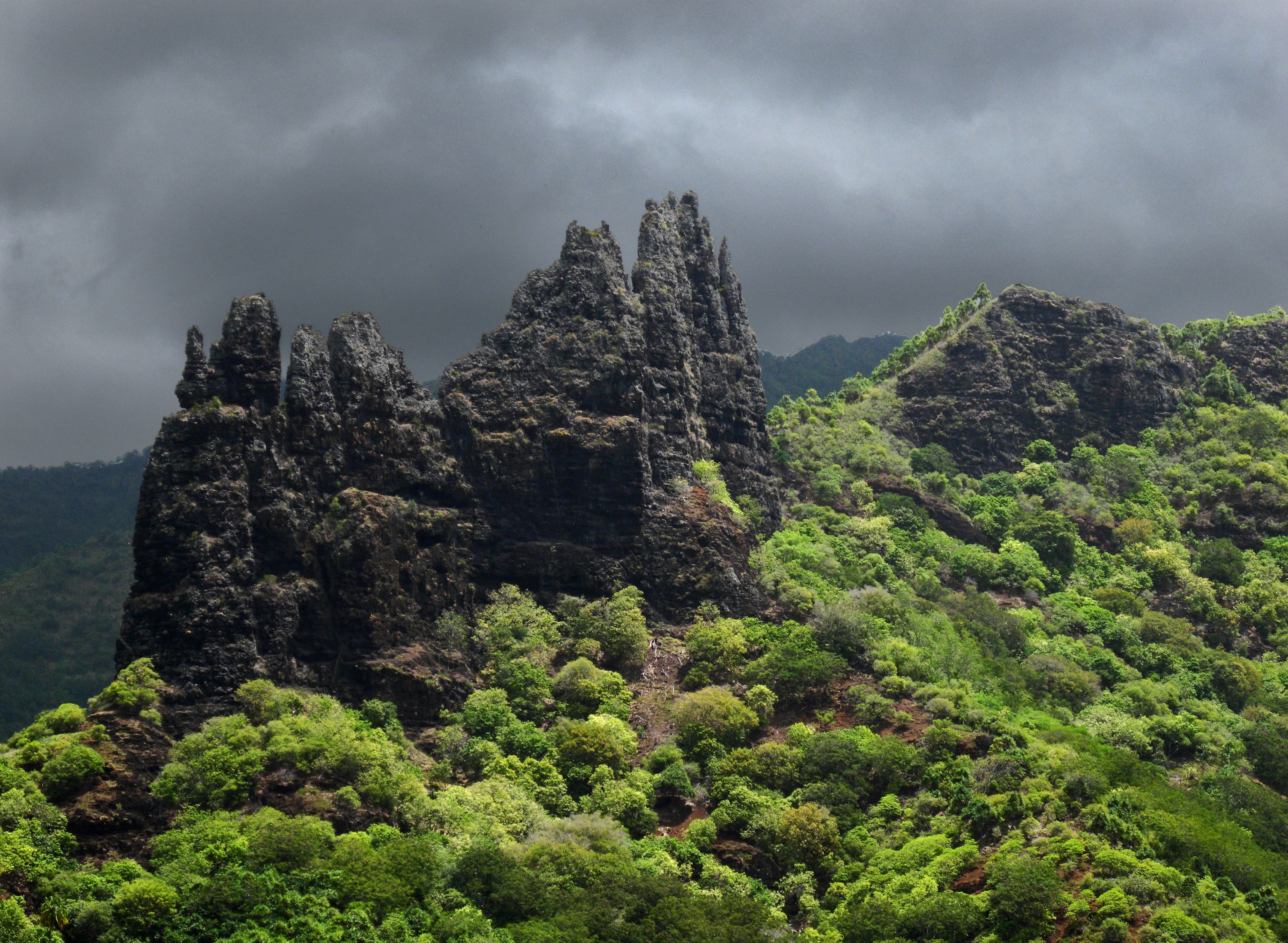 Hatiheu Bay, Nuku Hiva (French Polynesia) So, I just got back from a two week trip to the island of Nuku Hiva (part of French Polynesia, in the South Pacific). It's a pretty beautiful place!! In 1846, Herman Melville (writer of Moby Dick) wrote about his experience on the island in his novel Typee, and had this to say about the island's beautiful landscape: "Very often when lost in admiration at its beauty, I have experienced a pang of regret that a scene so enchanting should be hidden from the world in these remote seas, and seldom meet the eyes of devoted lovers of nature." I wanted to travel light, so I didn't bring my SLR and tripod.. but I did get a chance to try out my new Canon G10, and I think this is one of the best photos I took on the trip. This scene was a little different from the next photo I took, since the sun was not shining on that rock formation.